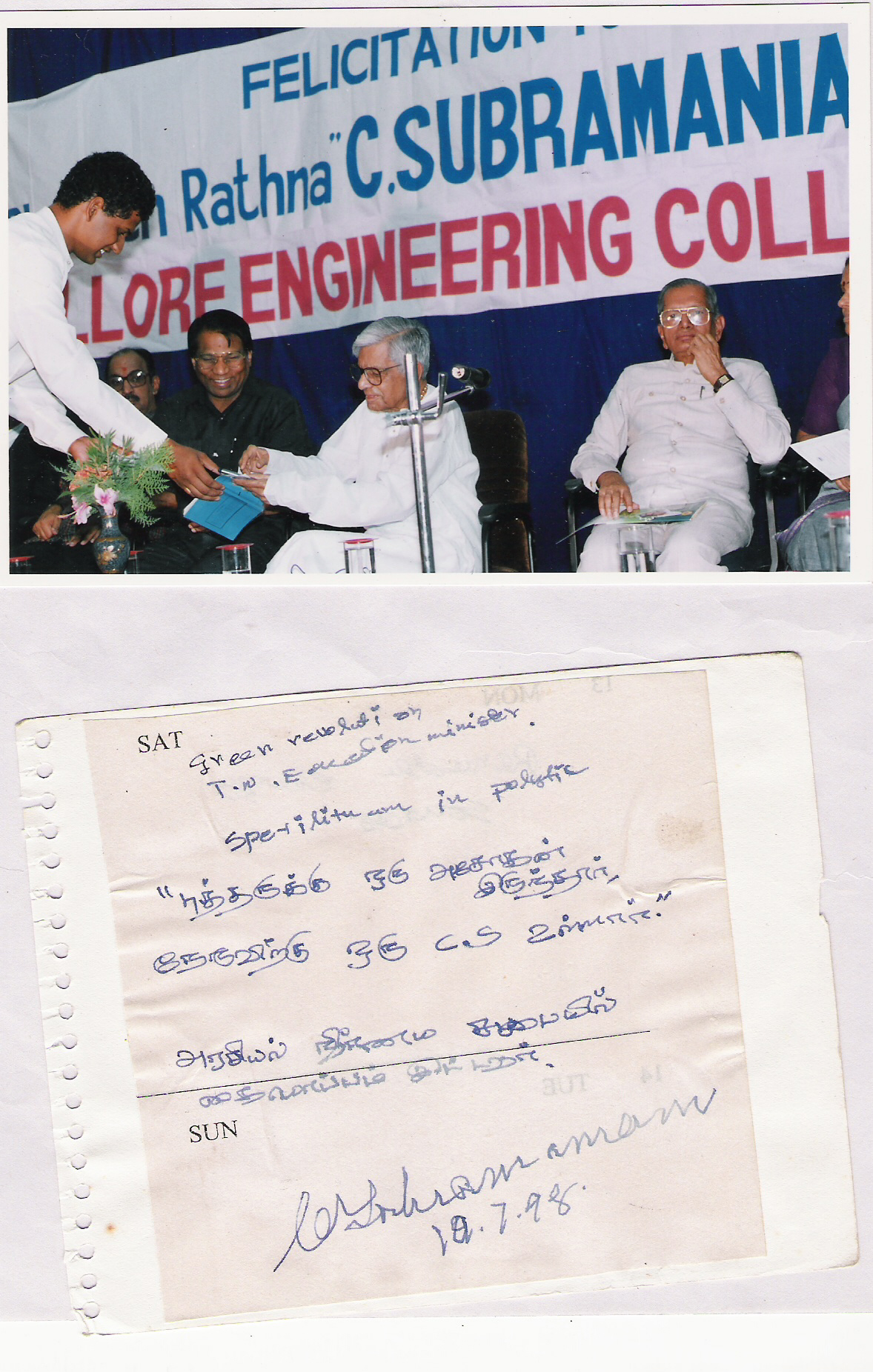 Autograph of Dr.C.Subramaniam signed for Mahaveer prabu at VIT University Vellore.